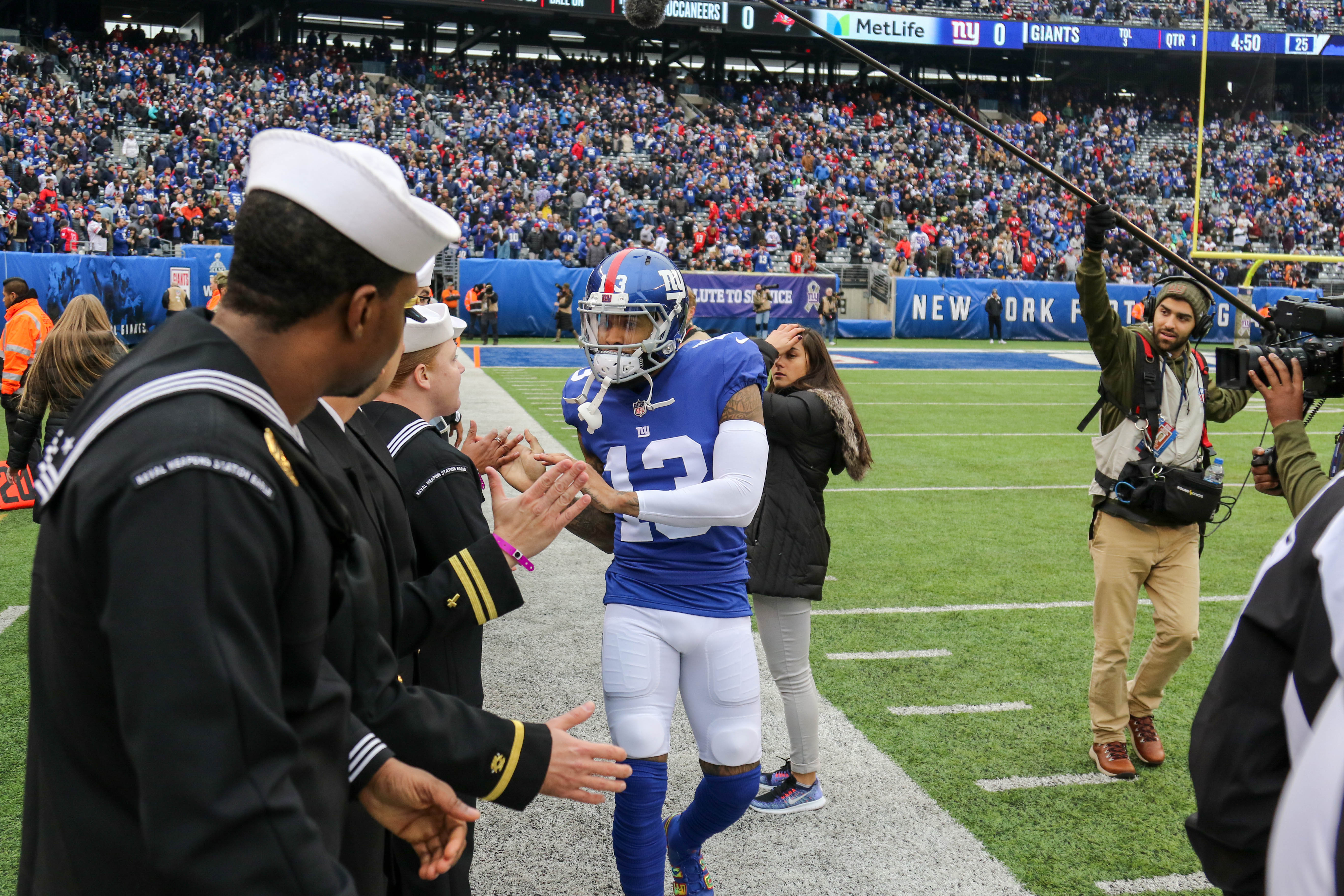 New York Giants wide receiver Odell Beckham Jr. greeting members of the U.S. military in the Salute to Soldier event during the New York Giant's game against the Tampa Bay Buccaneers Sunday, Nov. 18, 2018 at Metlife Stadium. (U.S. Army Photos by Brandon O'Connor)